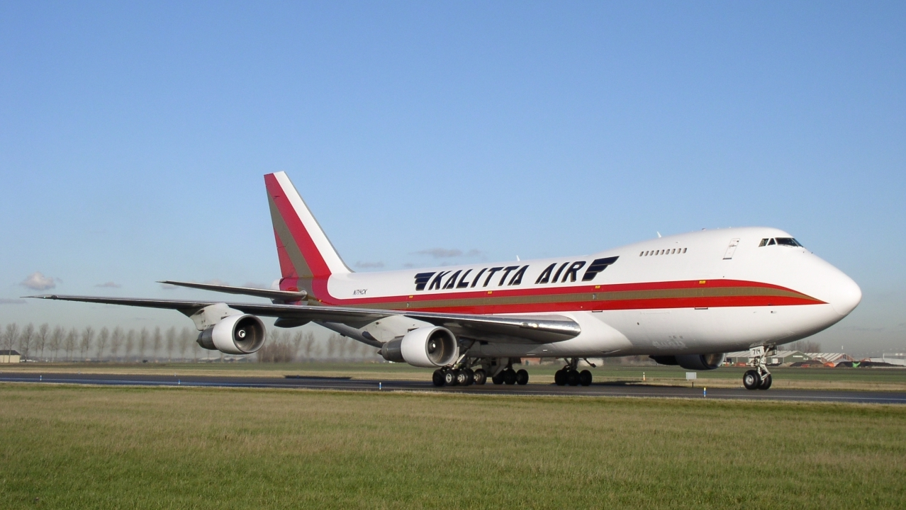 2003 the year I started spotting. This is one of the first photos at the taxiway from the polderbaan towards the Zwanenburgbaan close the the A5 highway. Boeing 747-209B(SF) Amsterdam schiphol EHAM (28-11-2003)